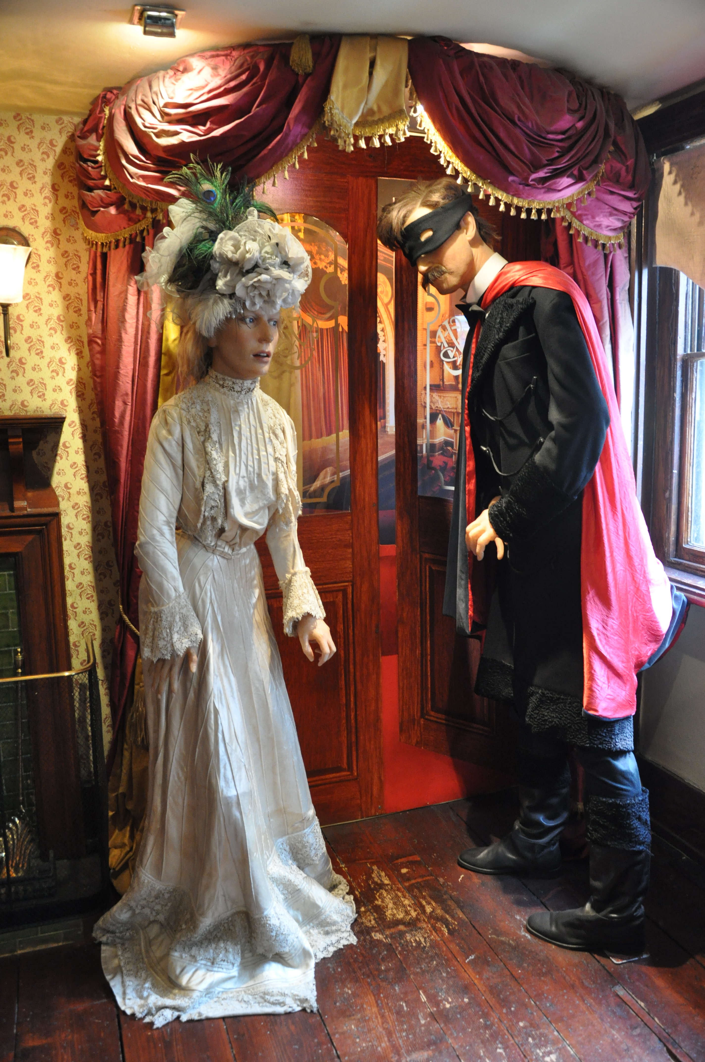 Sherlock Holmes Museum, Baker Street, London Figures illustrating "A Scandal in Bohemia"